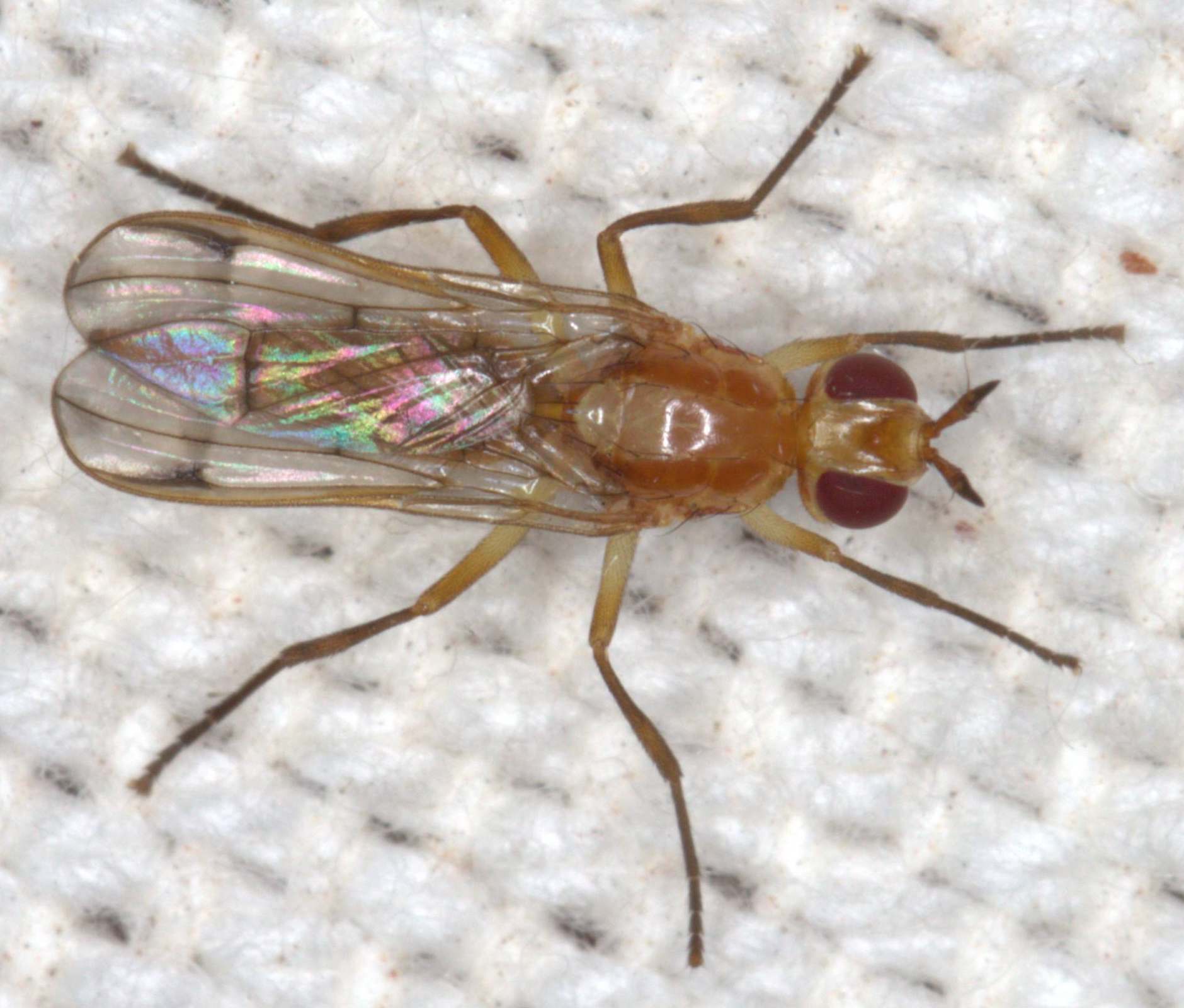 Dorsal aspect of a female of a member of the family Pyrgotidae